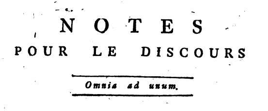 First page of the Eulogy of Leibniz by French astronomer Jean Sylvain Bailly (published in 1768).